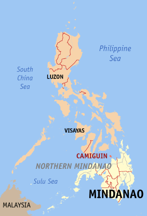 Map of the Philippines showing the location of Camiguin